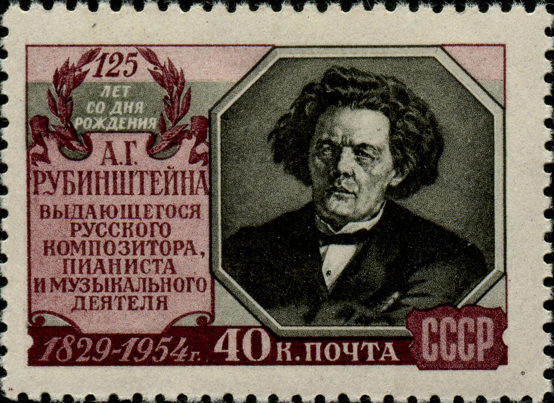 A USSR stamp, 125th anniversary of Anton Rubinstein (1829-1894), Russian pianist and composer. December 1954, design by V. Zavyalov.